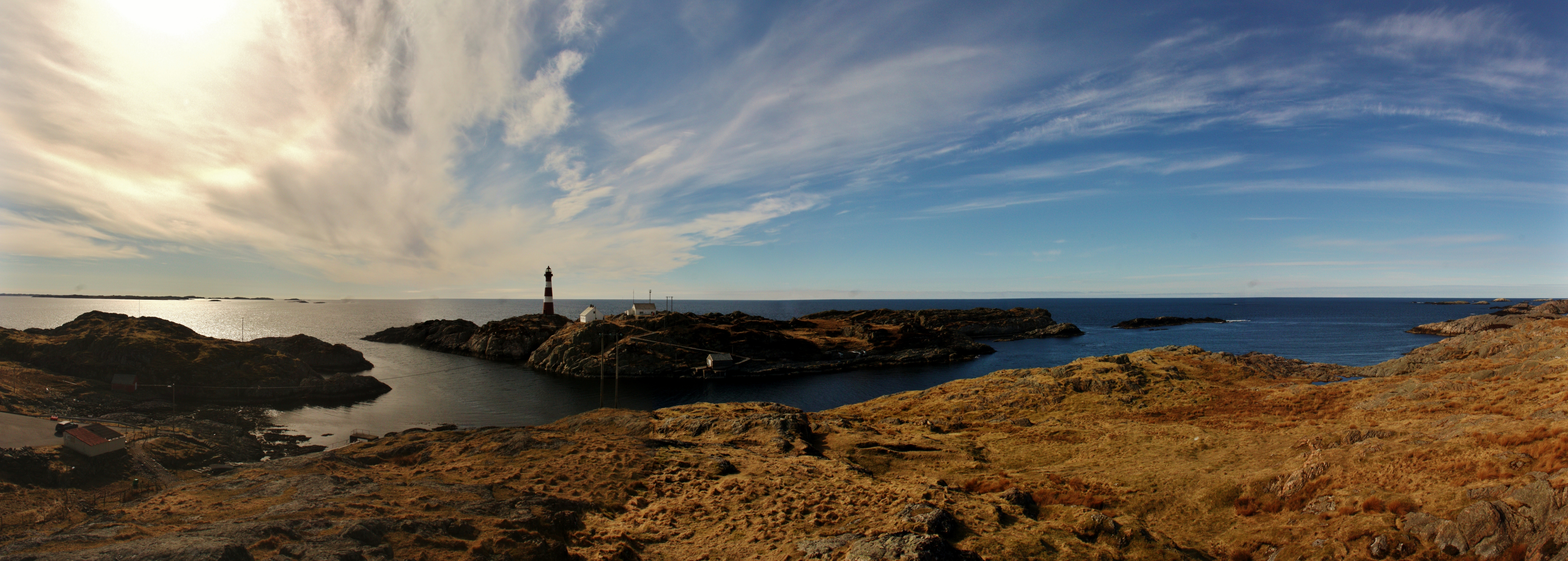 Hellisøy lighthouse in Fedje.